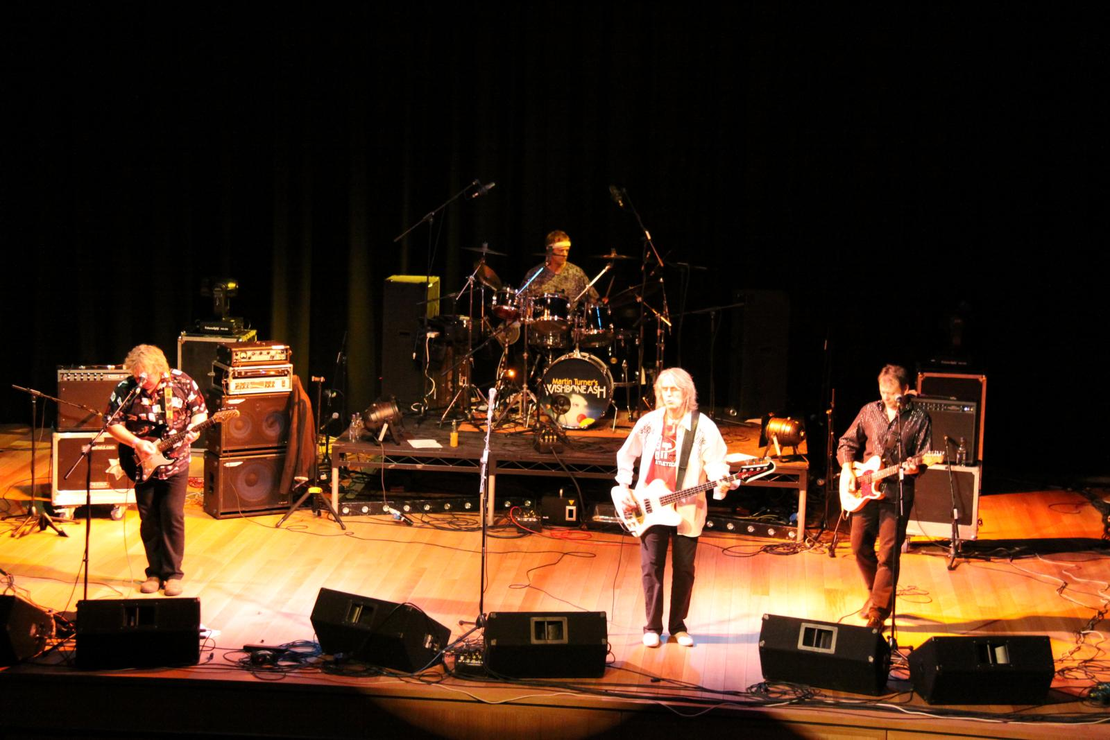 ProGBury, The Apex, Bury St Edmunds 17-10-10, Martin Turner's Wishbone Ash Two Day Prog (Progressive) Rock Festival at the exciting new music and entertainment venue. Saturday: Mother Black Cap Future Kings of England Aeon Zen Curved Air Focus Sunday: Godsticks ReGenesis Mostly Autumn Martin Turner's Wishbone Ash Hawklords